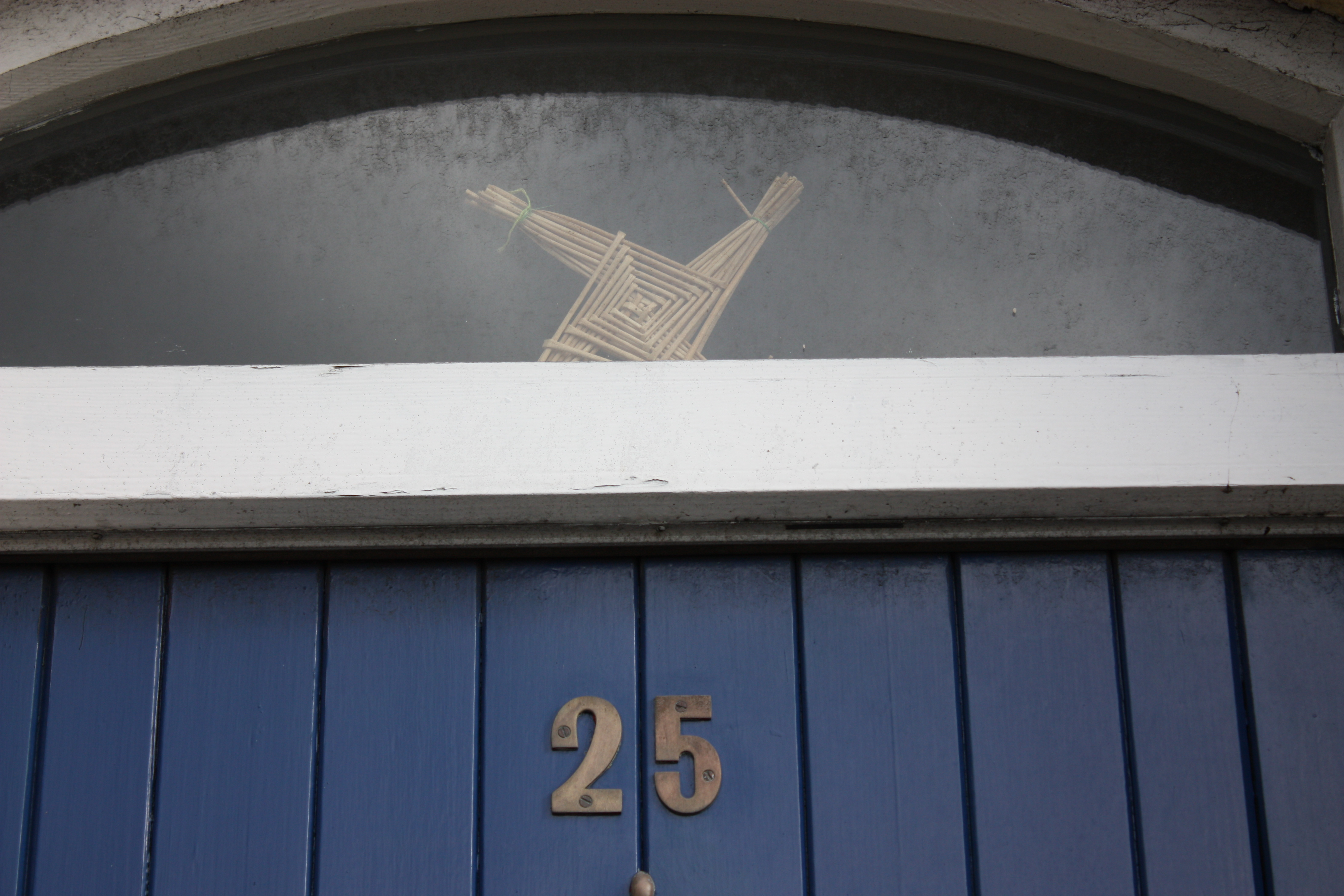 House number and St Brigids Cross, New Bridge Street, Downpatrick, County Down, Northern Ireland, February 2010